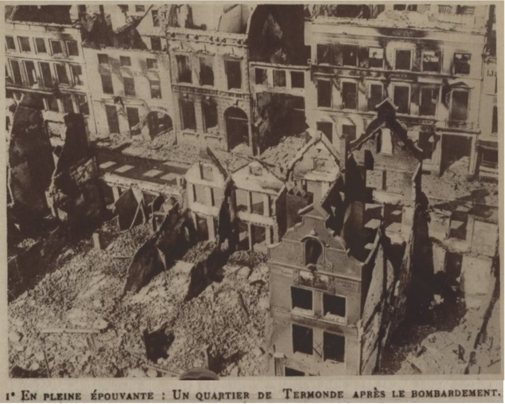 Ruins of Dendermonde after WW1 bombing raid